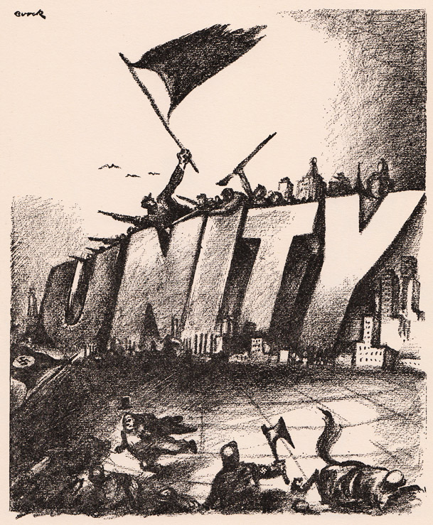 Cartoon by Jacob Burck "Working Class Bulwark". Via Marxists Internet Archive, Creative Commons Attribution-ShareAlike 3.0